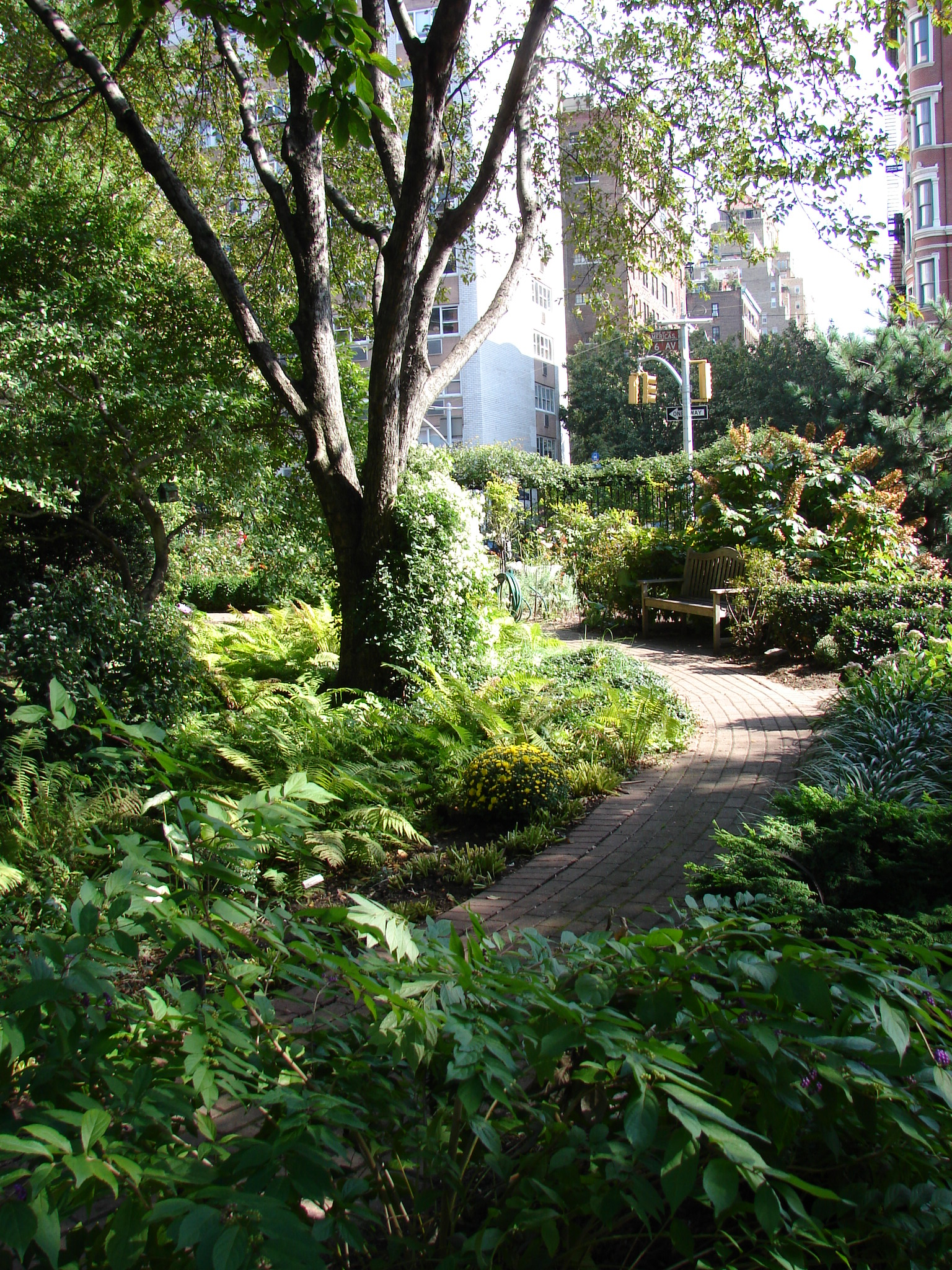 This photo is of Wikis Take Manhattan goal code R12, Community gardening.